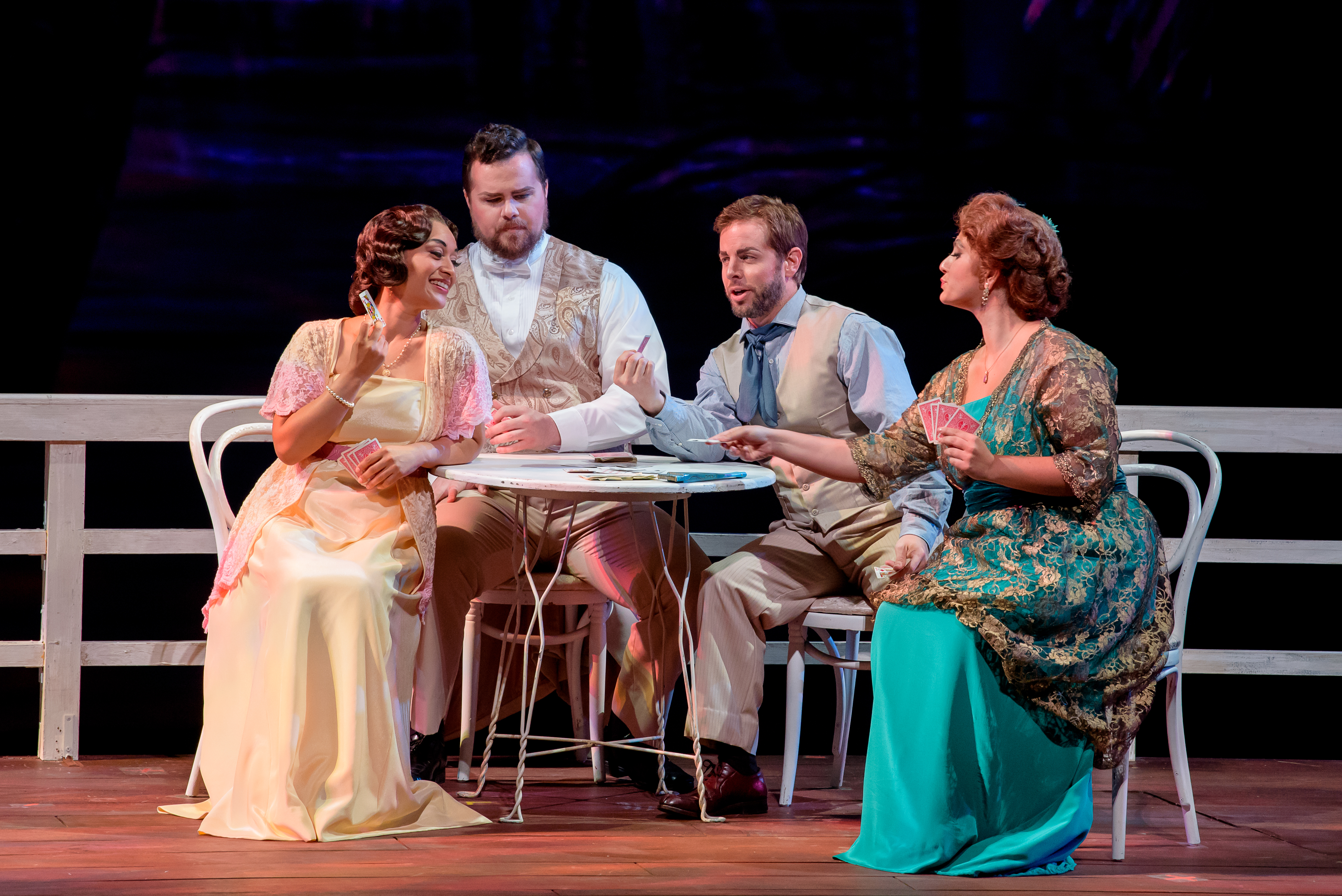 Photo by Chris Kakol